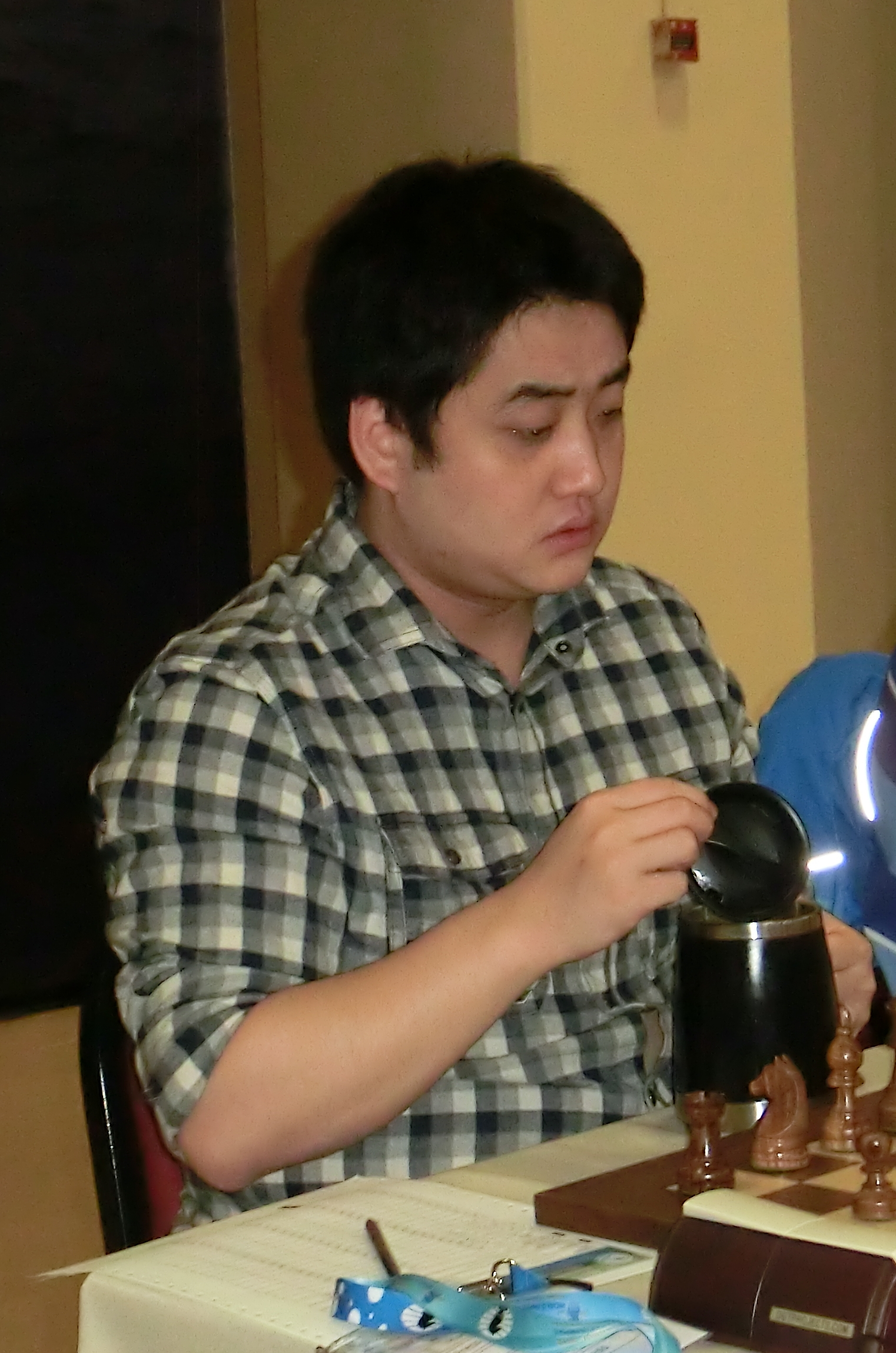 Wang Yue, chess grandmaster from China